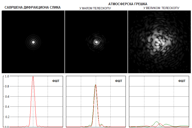 АТМОСФЕРСКА ГРЕШКА СЛИКЕ ТЕЛЕСКОПА